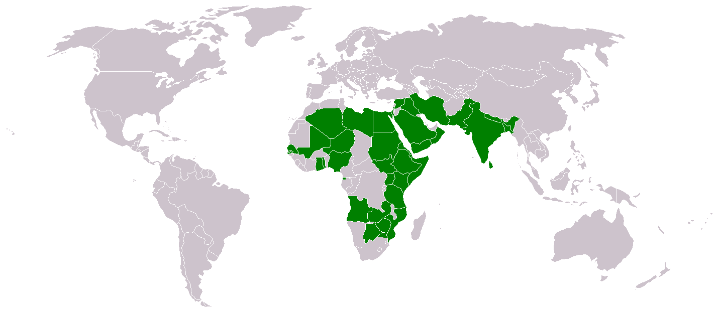 Acacia nilotica range map created with a blank map from the Commons, info from ILDIS LegumeWeb and the GIMP. More detail from USDA-GRIN [1]